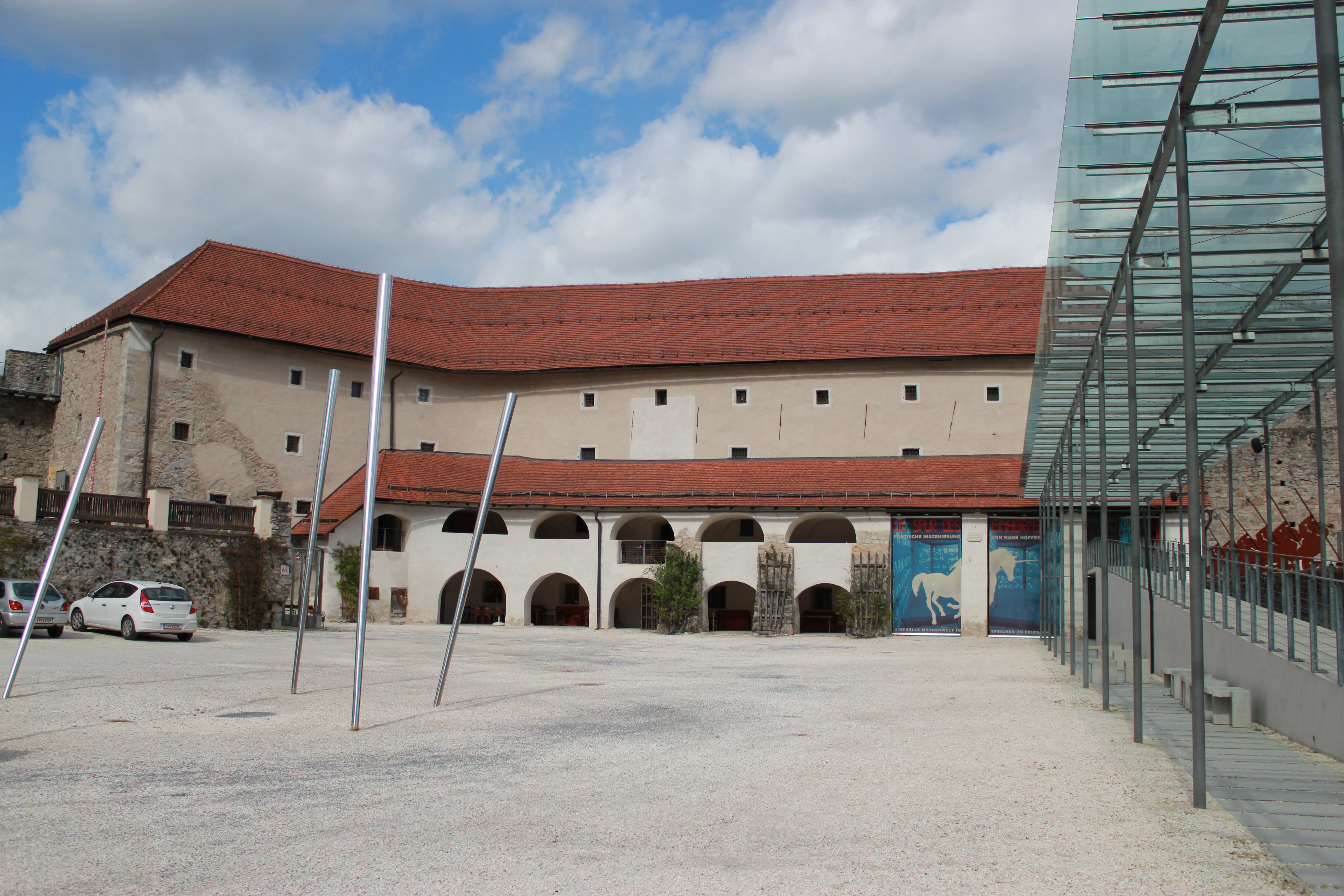 Dukes court in Friesach